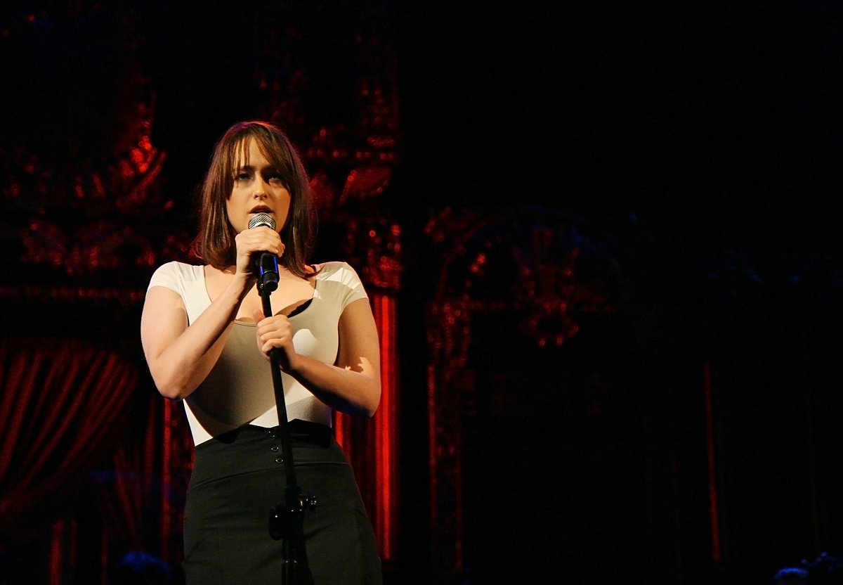 Matylda Damięcka in "Let Us Remember about Agnieszka Osiecka" Concert, Roma Musical Theatre in Warsaw, 15 Sep 2008.